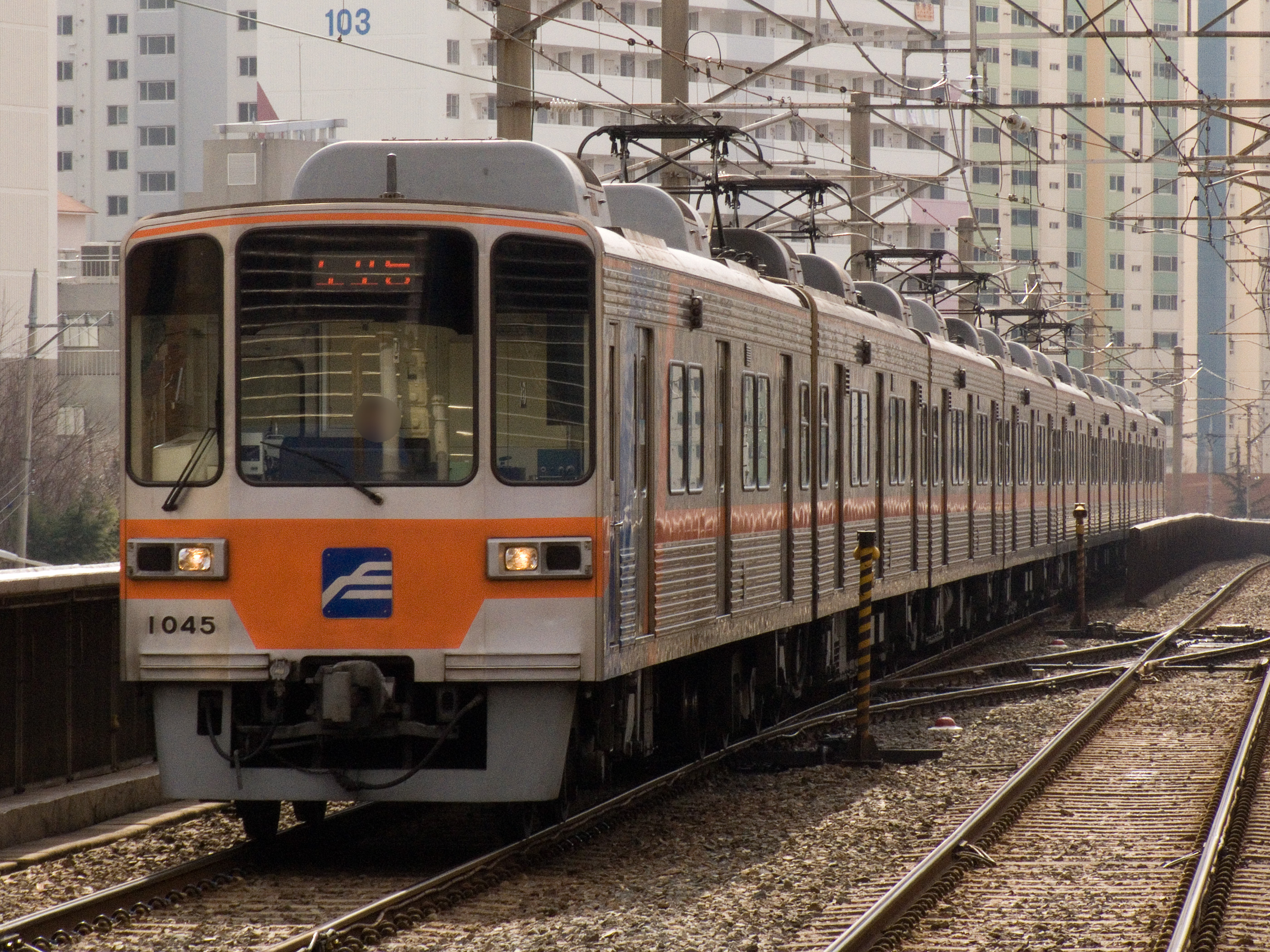 BTC Class 1000 45th unit